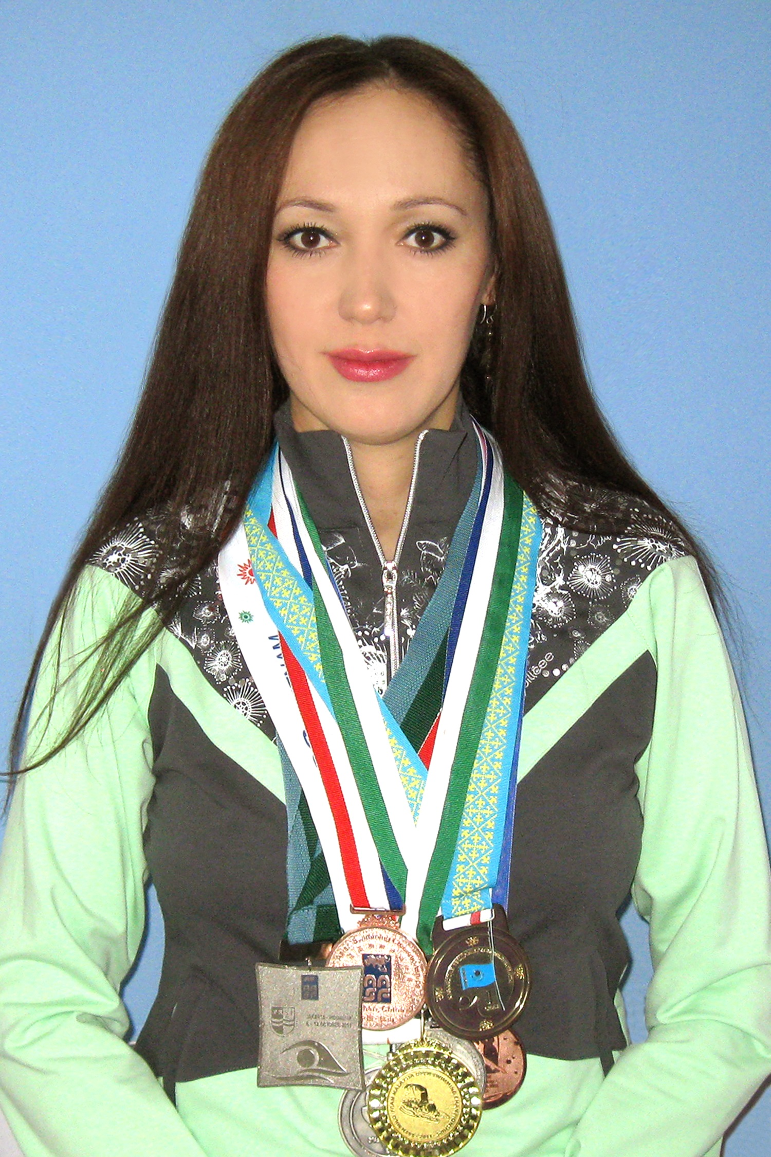 the best swimmer of Uzbekistan